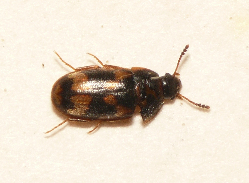 Litargus connexus. Location: The Netherlands - Renkum - Telefoonweg